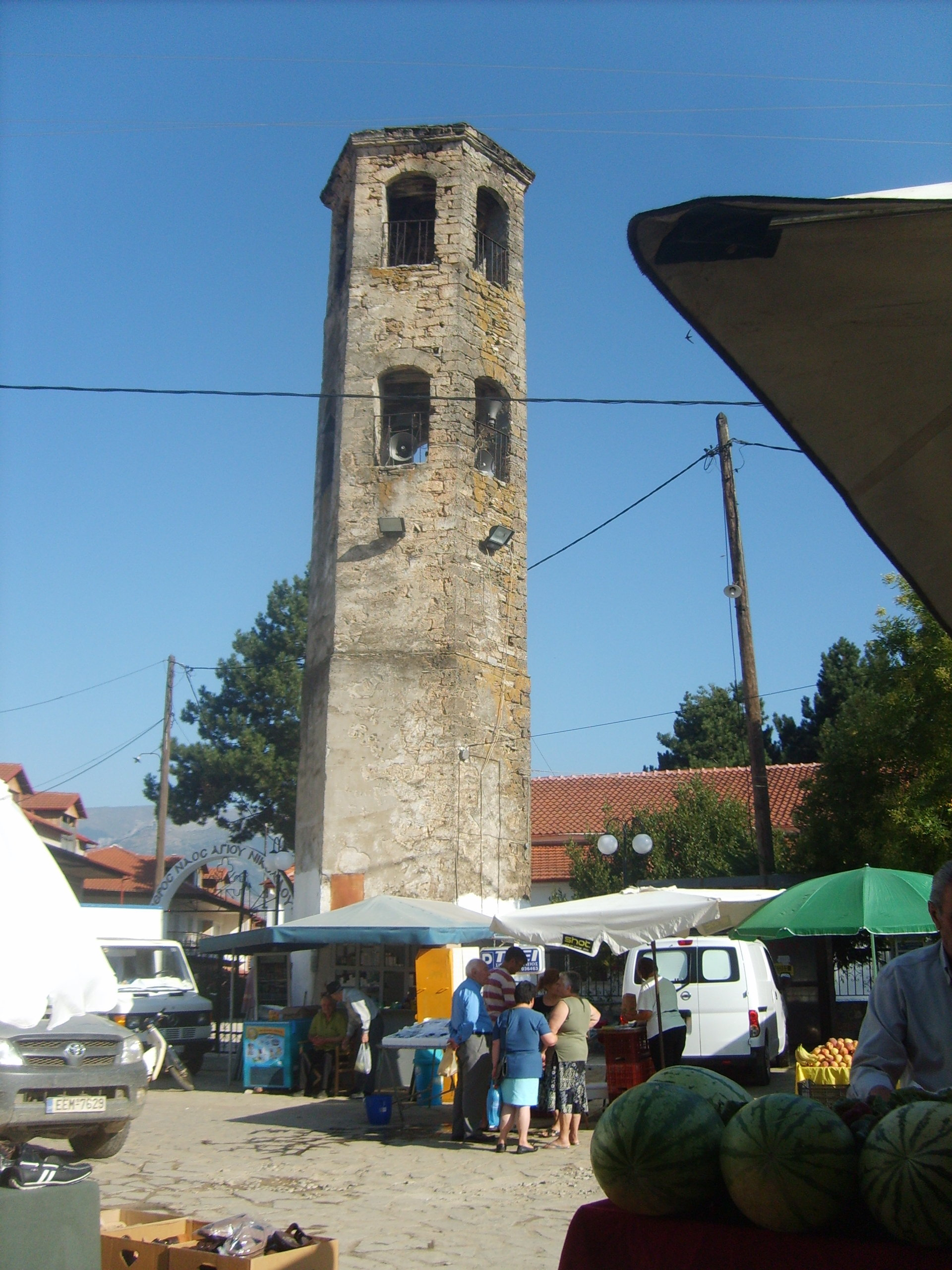 Main Square in Archangleos, Almopia, Greece